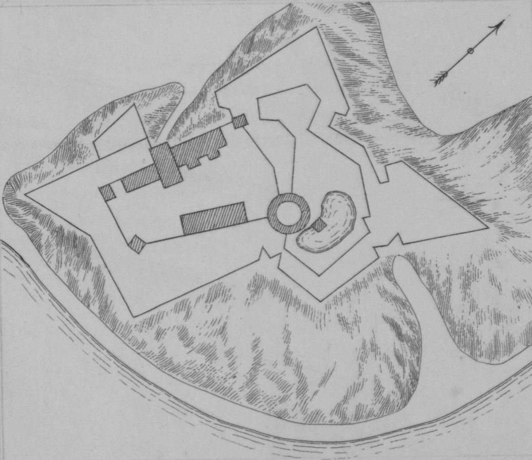 The castle Bohus at aproximately year 1600.